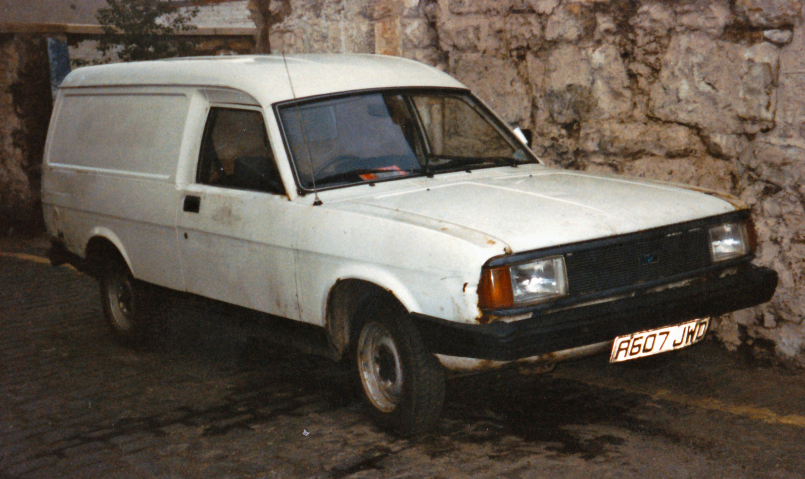 A 1984 Morris Ital Van (1,275cc) in England, 1993. This car's last date of liability was only about a month after this photo was taken - not hard to believe considering the state it was in. 1984 was the last year of Ital production.